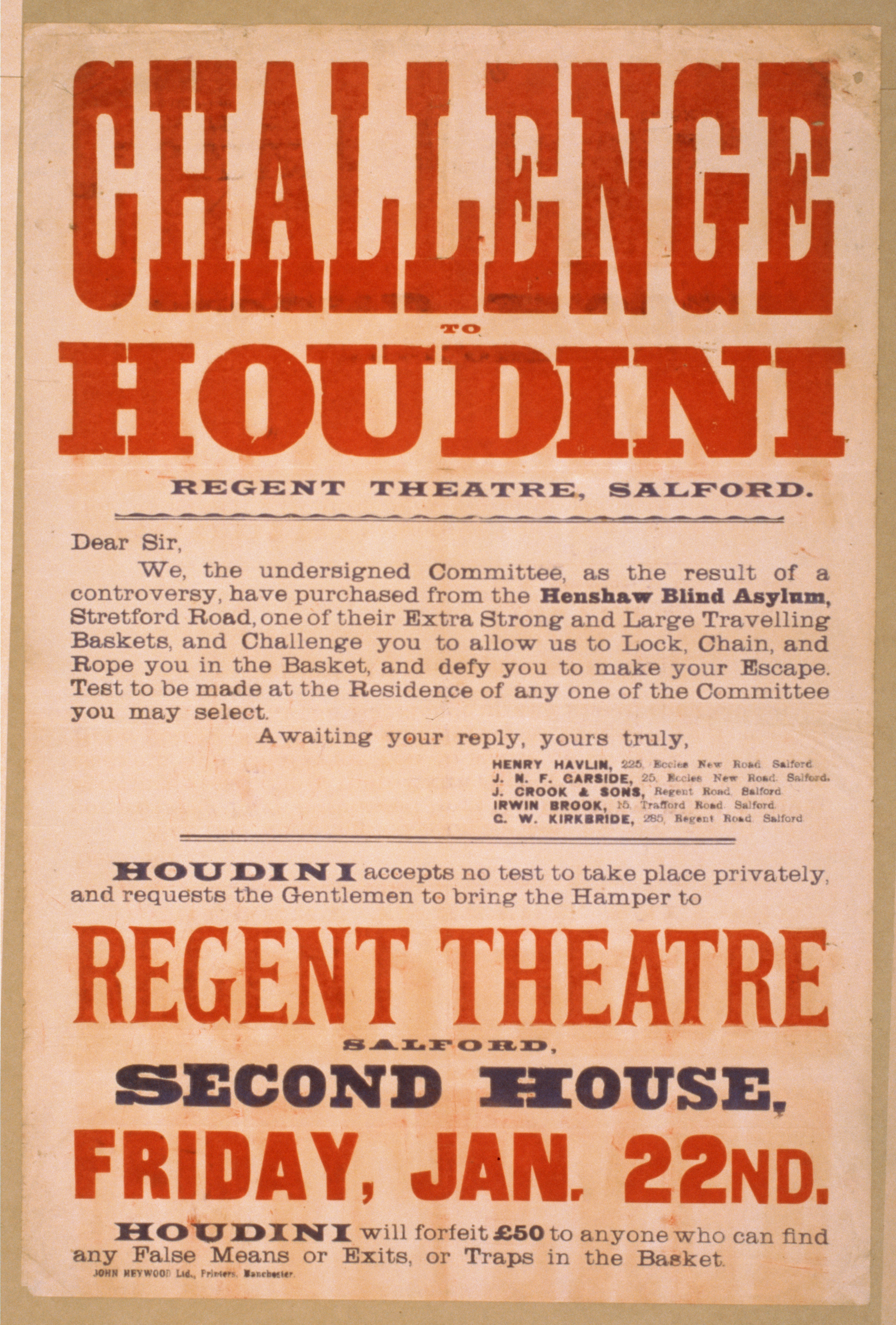 Committee letter challenging Houdini to escape from "one of their extra strong and large travelling baskets" and his reply.